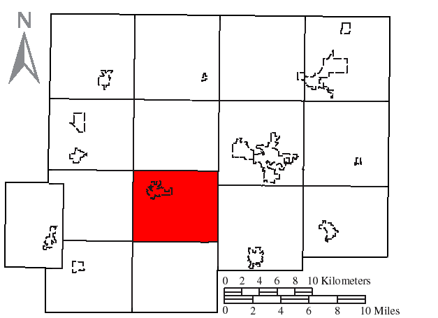 Made by the US Census and modified by myself